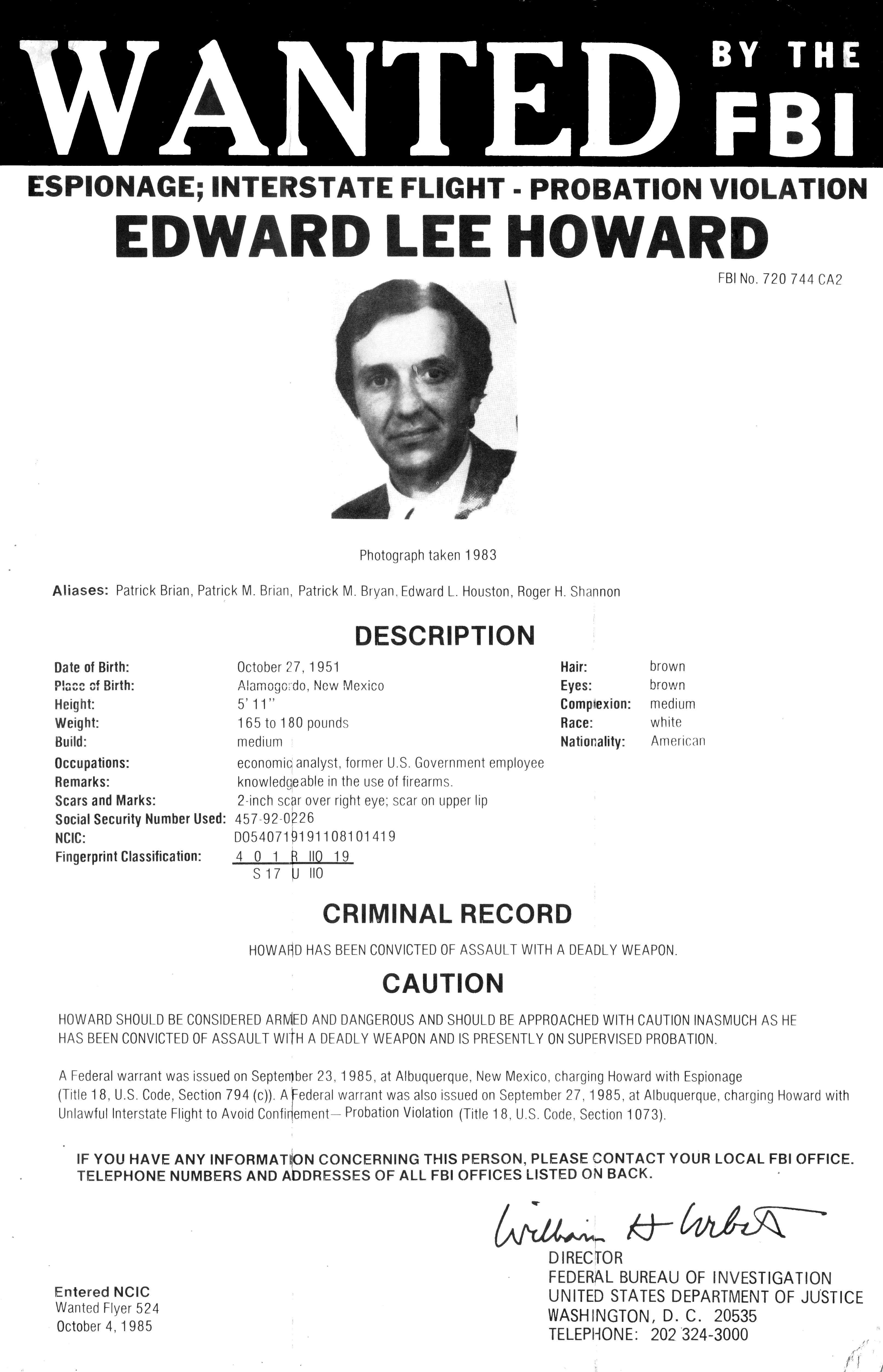 The FBI wanted poster for Edward Lee Howard. Public domain work of a US government agency. From own collection.